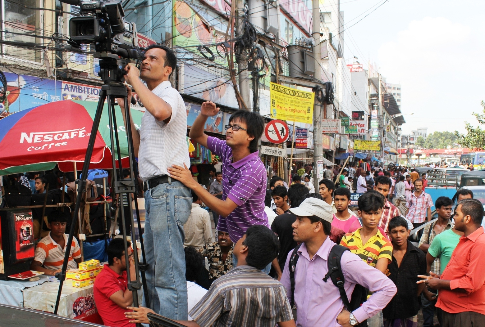 Asiavision training in Dhaka, September 2011